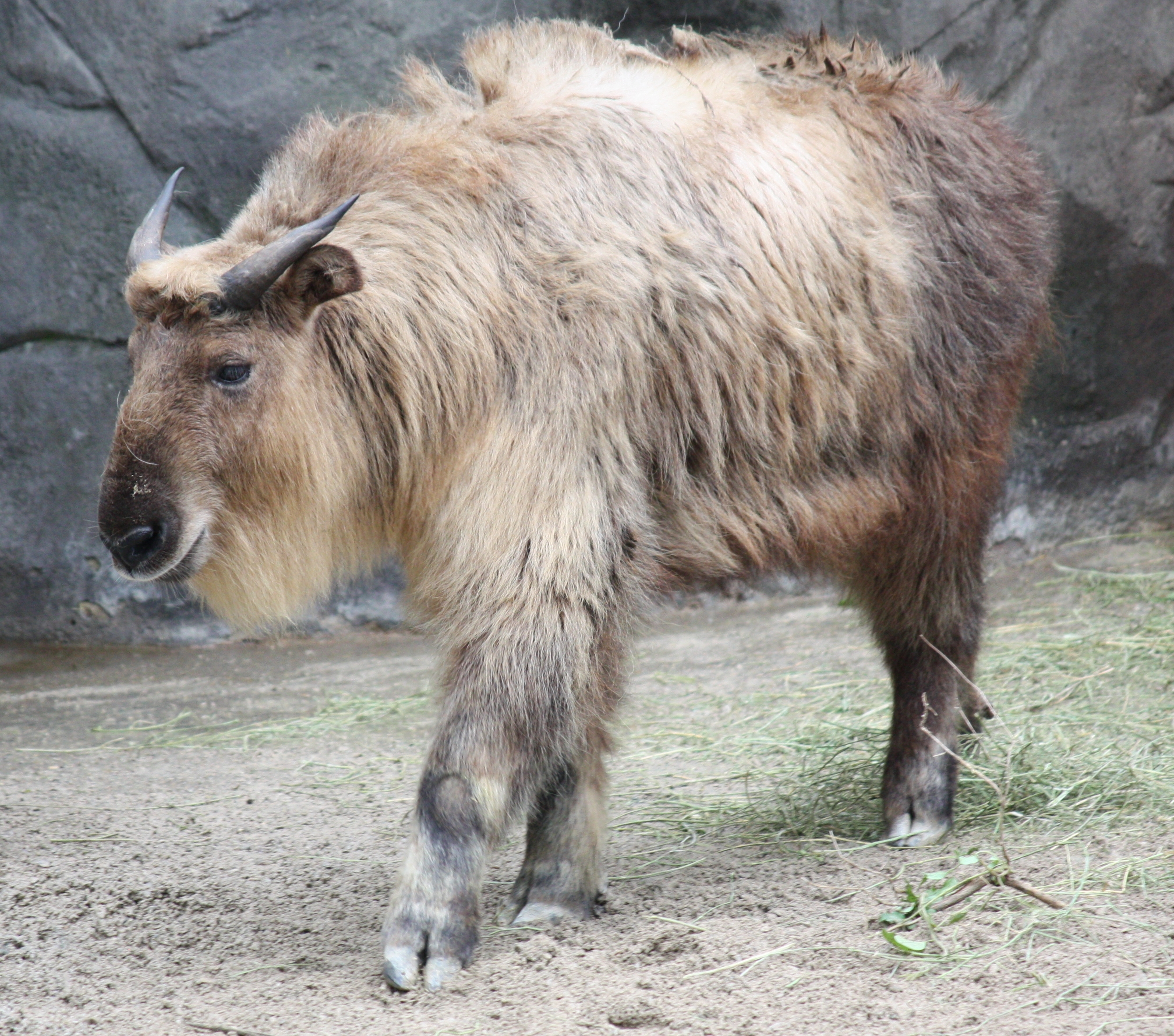 Sichuan Takin Juvenile Budorcas taxicolor tibetana at Cincinnati Zoo